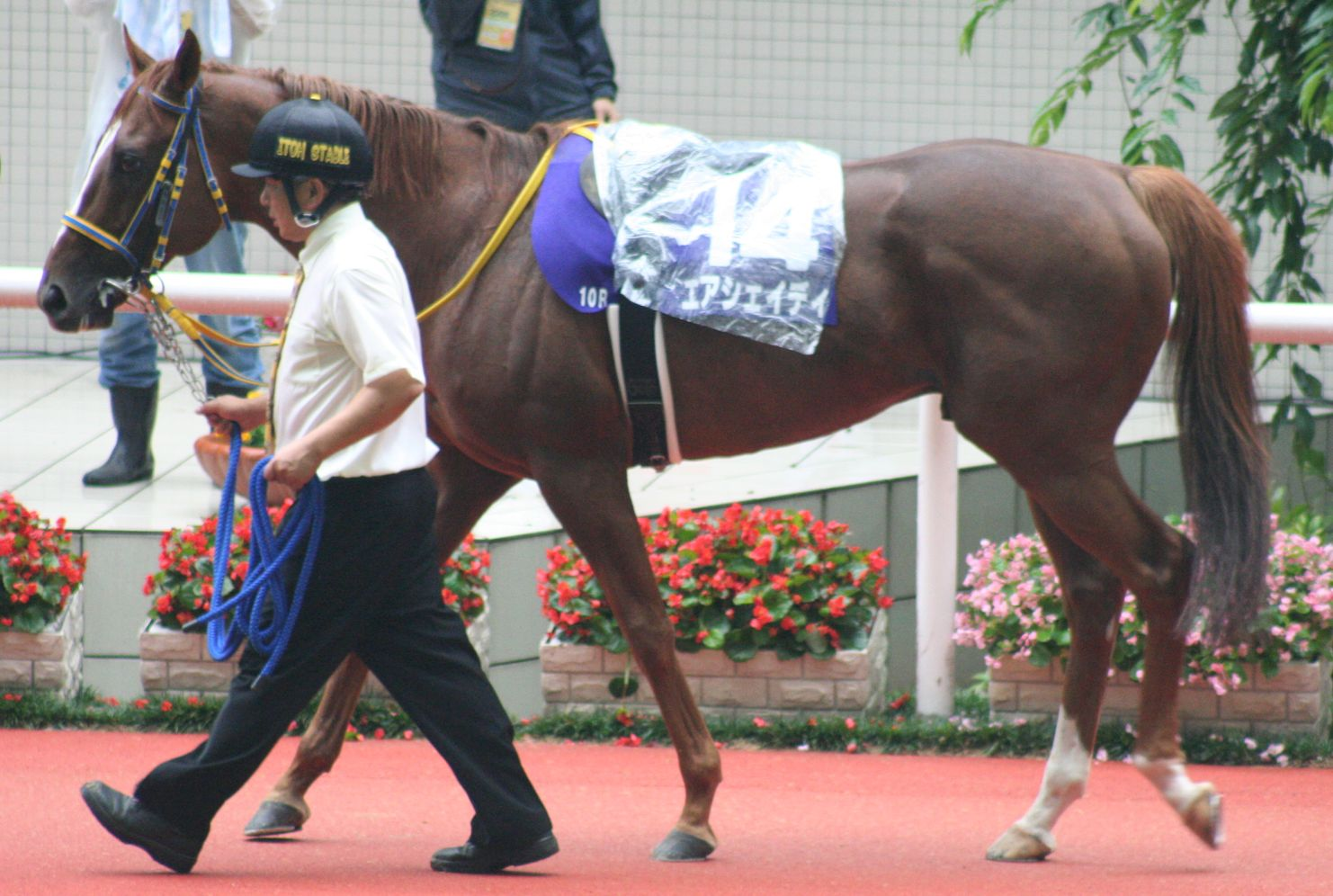 Air Shady (horse, Hanshin Racecourse)